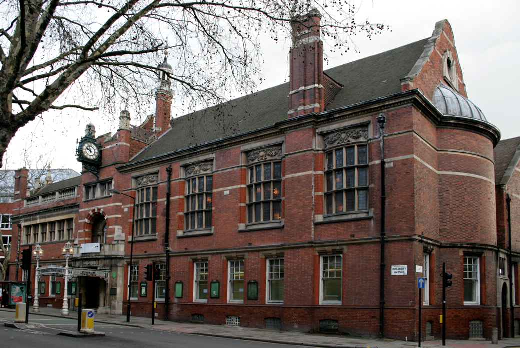 Finsbury Town Hall, London.